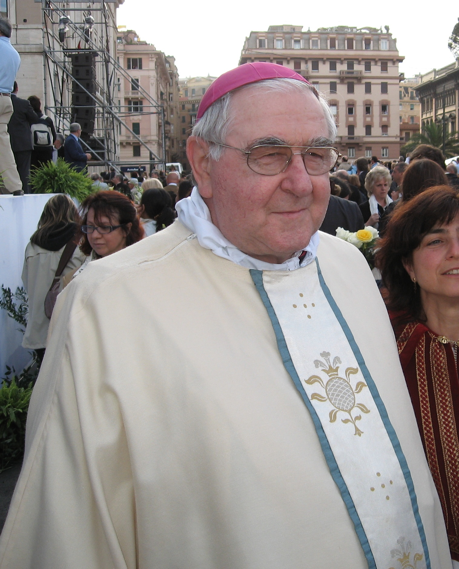 Catholic Bishop Martino Canessa